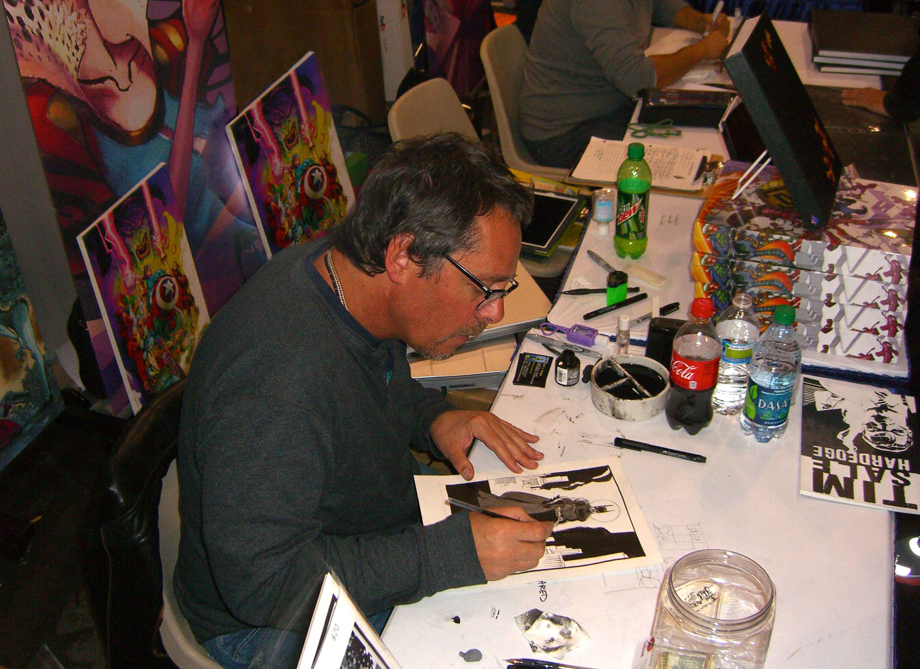 Comics creator Tim Sale during an October 16, 2011 appearance at the New York Comic Con in Manhattan. This photo was created by Luigi Novi. It is not in the public domain, and use of this file outside of the licensing terms is a copyright violation.